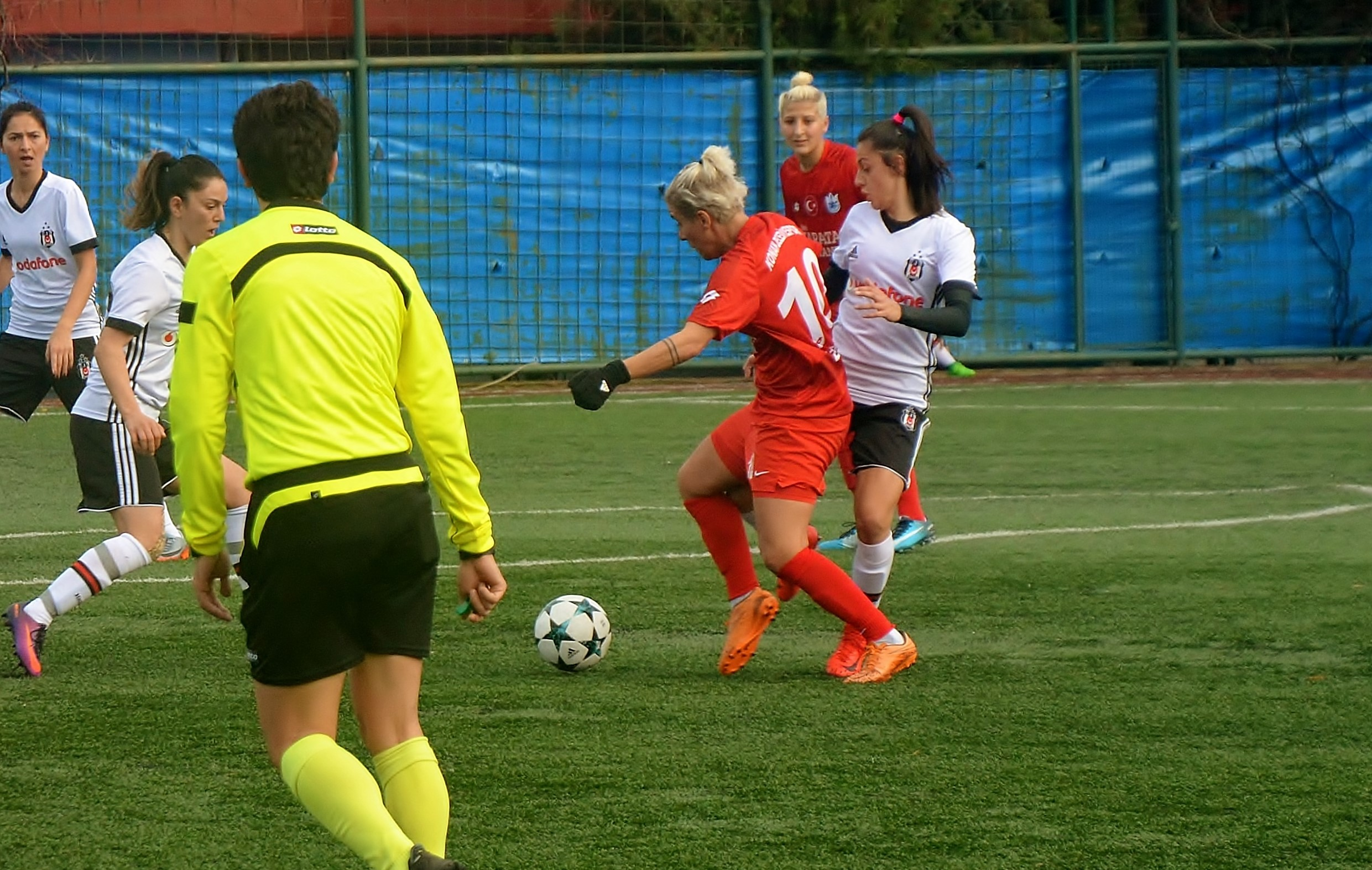 Cansu Yağ playing for Konak Belediyespor against Beşiktaş J.K. in the 2017-18 Turkish Women's First League season's away match.